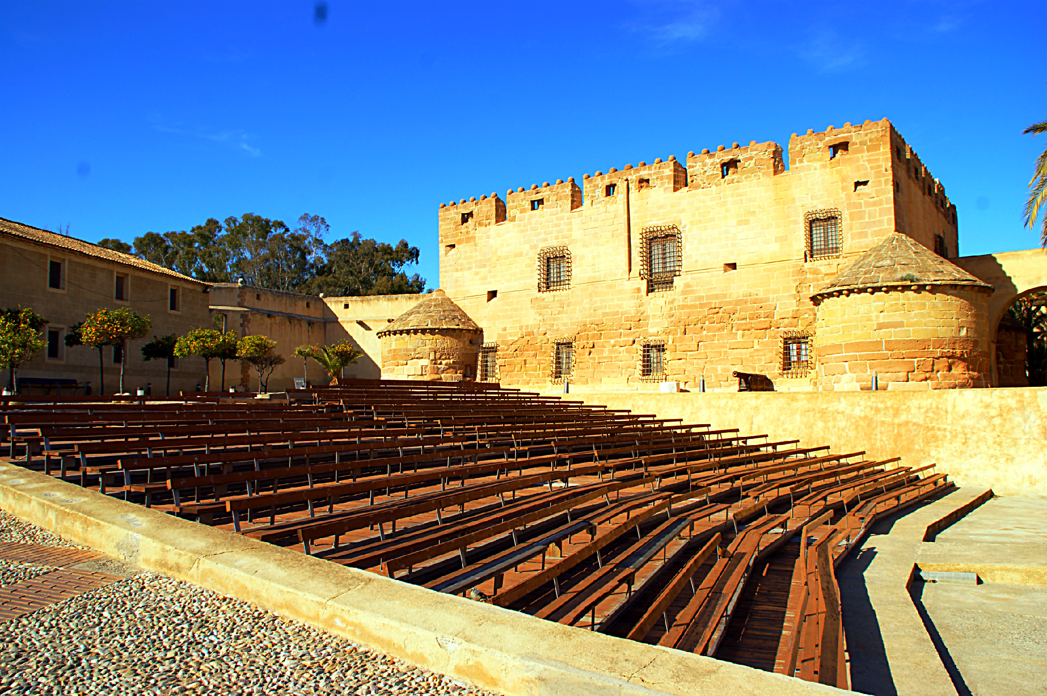 Castle of Cuevas del Almanzora (Andalusia, Spain).